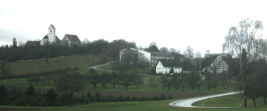 Berg near Ravensburg, Germany